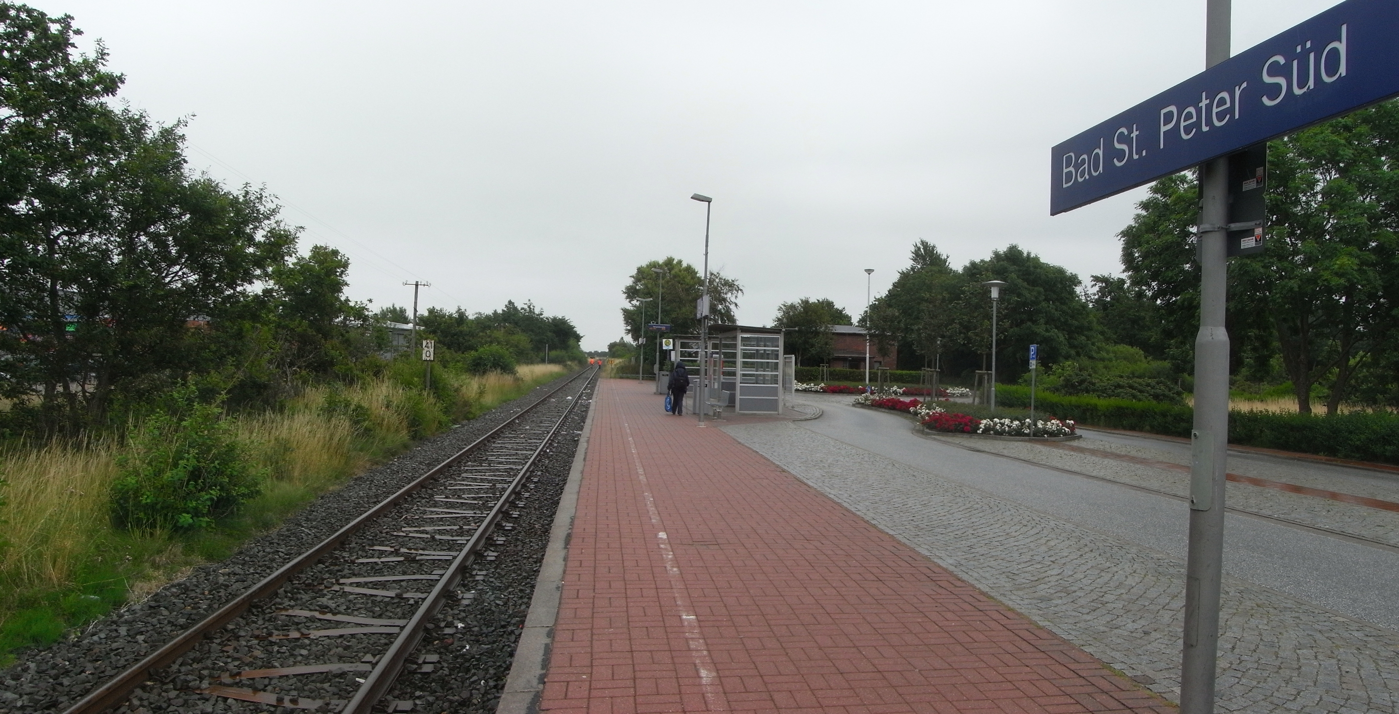 Western view of the train station "Bad St. Peter-Süd" in Sankt Peter Dorf , Sankt Peter-Ording municipality , Nordfriesland district, Schleswig-Holstein state, Germany.